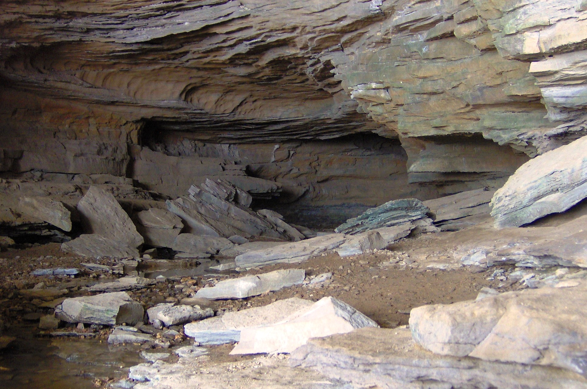 Bunkum Cave at Cordell Hull Birthplace State Park near Byrdstown, Tennessee in the Southeastern United States. The mouth of the cave is appx. 100 feet wide and 30 feet high. A permit is required to explore the cave beyond its lighted area.